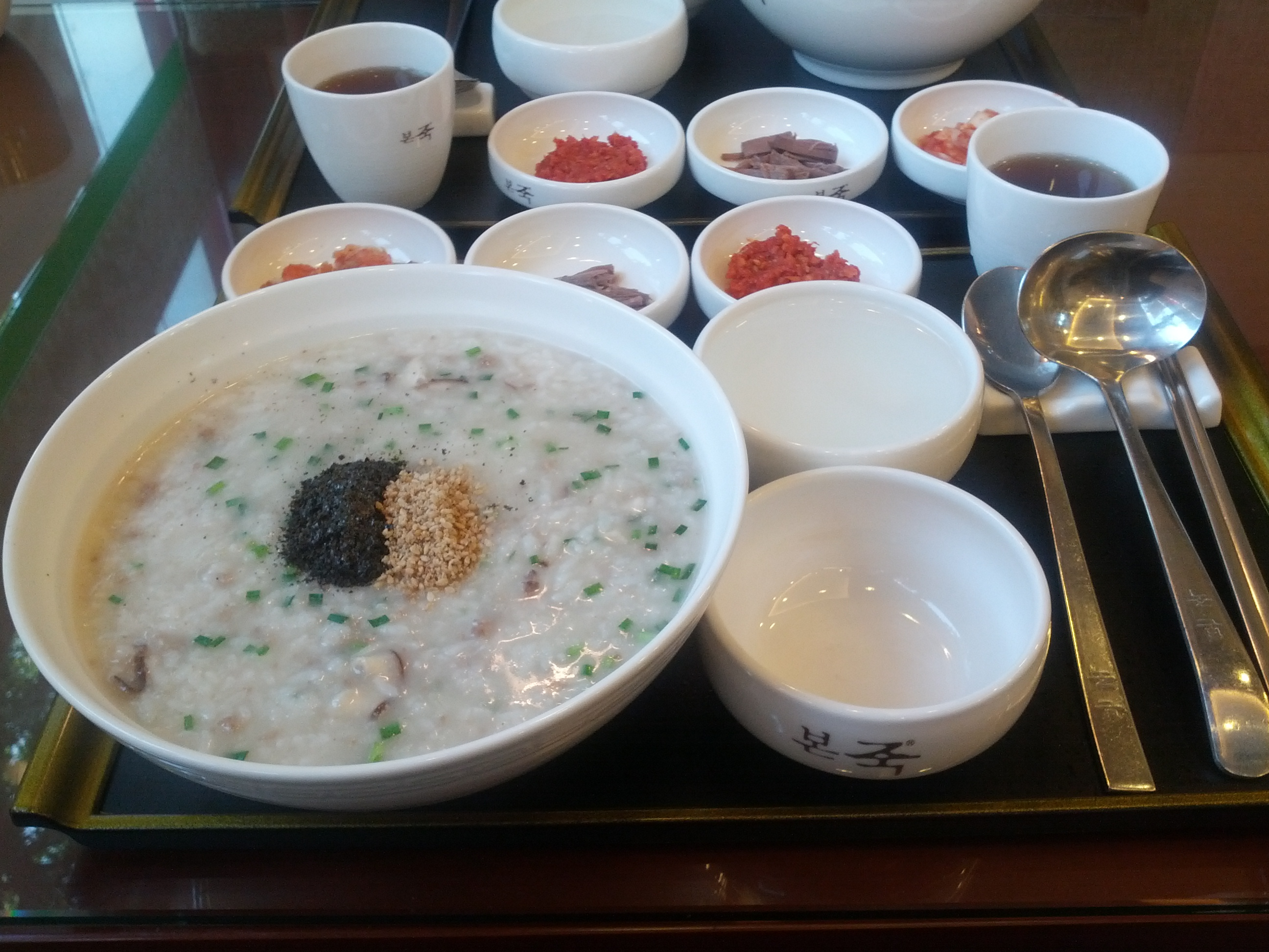 Korean Porridge Juk with Seafood, ground roasted seaweed and roasted sesame seeds